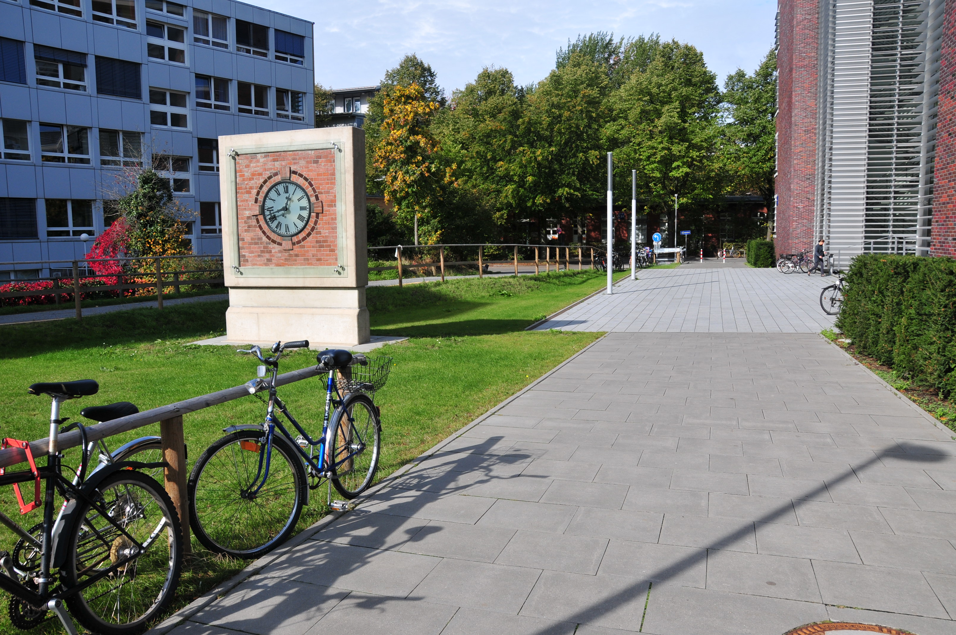 Scientific laboratories building of the University Medical Center Hamburg-Eppendorf photo author: Dr. Alla Adams, October 2009.